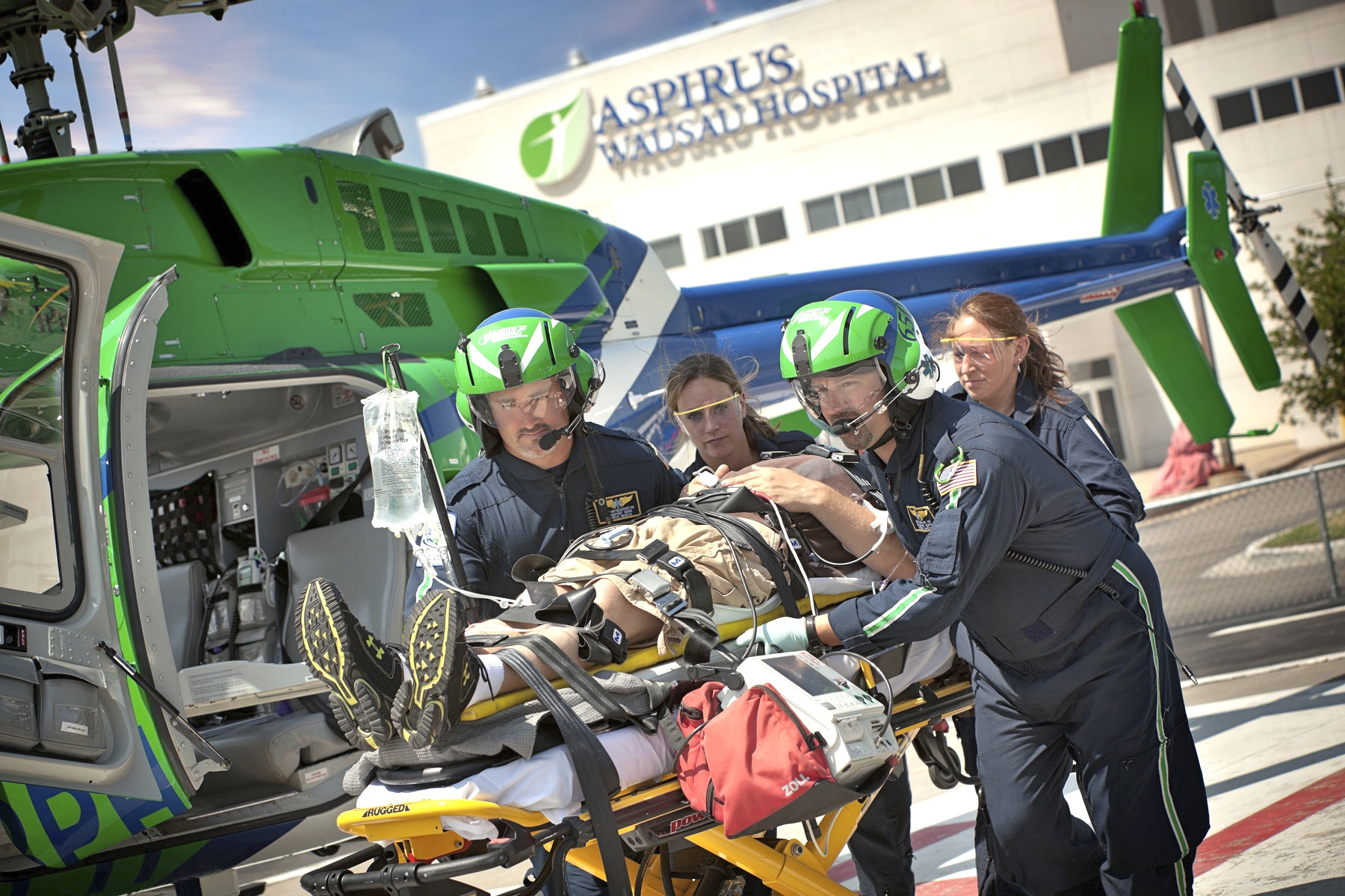 Aspirus Trauma